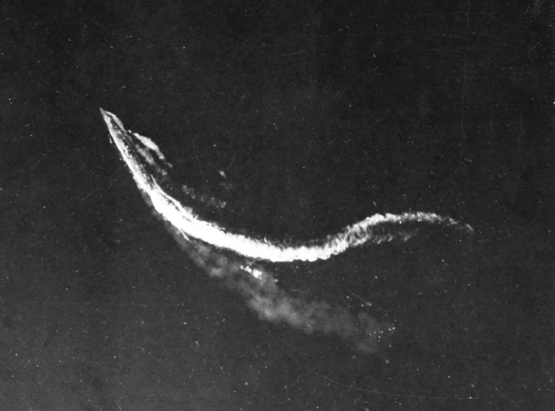 Battle of the Eastern Solomons, 24 August 1942: The Japanese heavy cruiser Tone photographed from a USAAF Boeing B-17 Flying Fortress bomber, during high-level bombing attacks on the immobile carrier Ryujo on 24 August 1942. Ryujo is out of this view, some distance to the right.